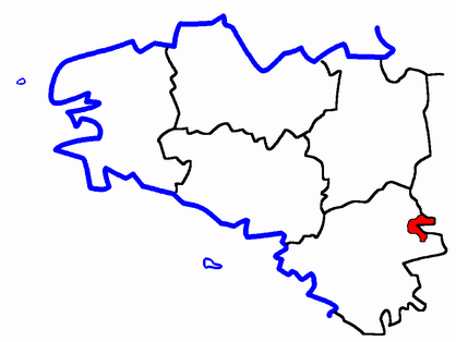 Description: Map for localisazion of cantons of Pays-de-Loire, region in France Source: made by Hervé Tigier in april 2005 from another large map (published in 1990)